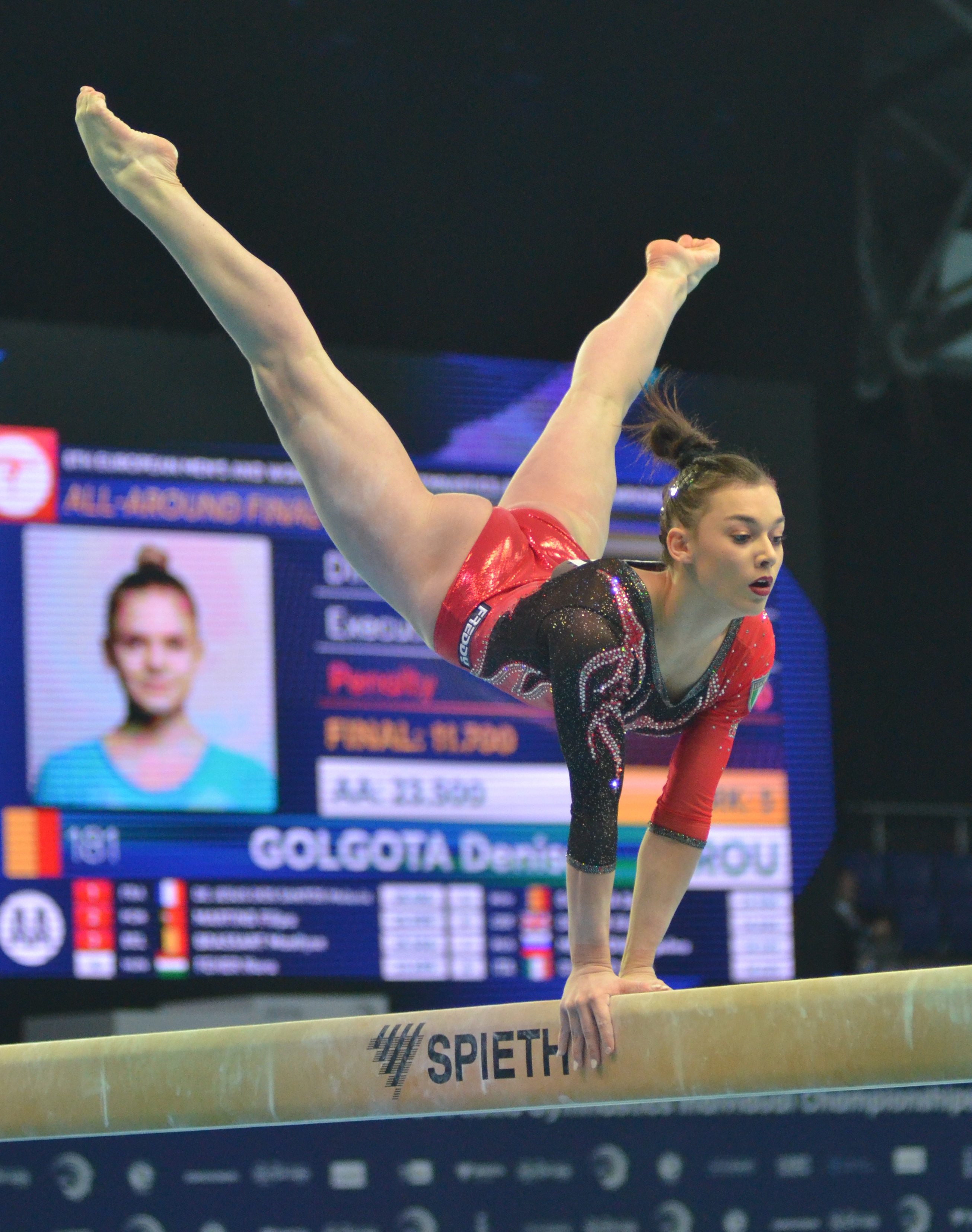 Giorgia Villa (ITA) of Italy performs on Balance Beam during Women's All Around Final at 8th Individual European Women's and Men's Artistic Gymnastics Championships in Netto Arena Szczecin Poland April 12th 2019